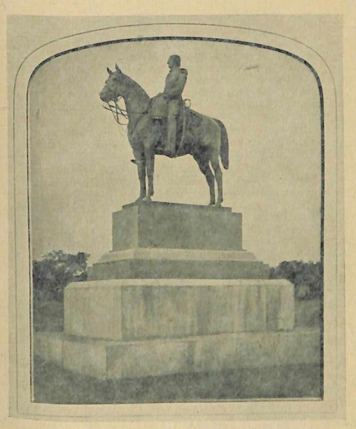 Statue in Bangalore, India, of British administrator Sir Mark Cubbon